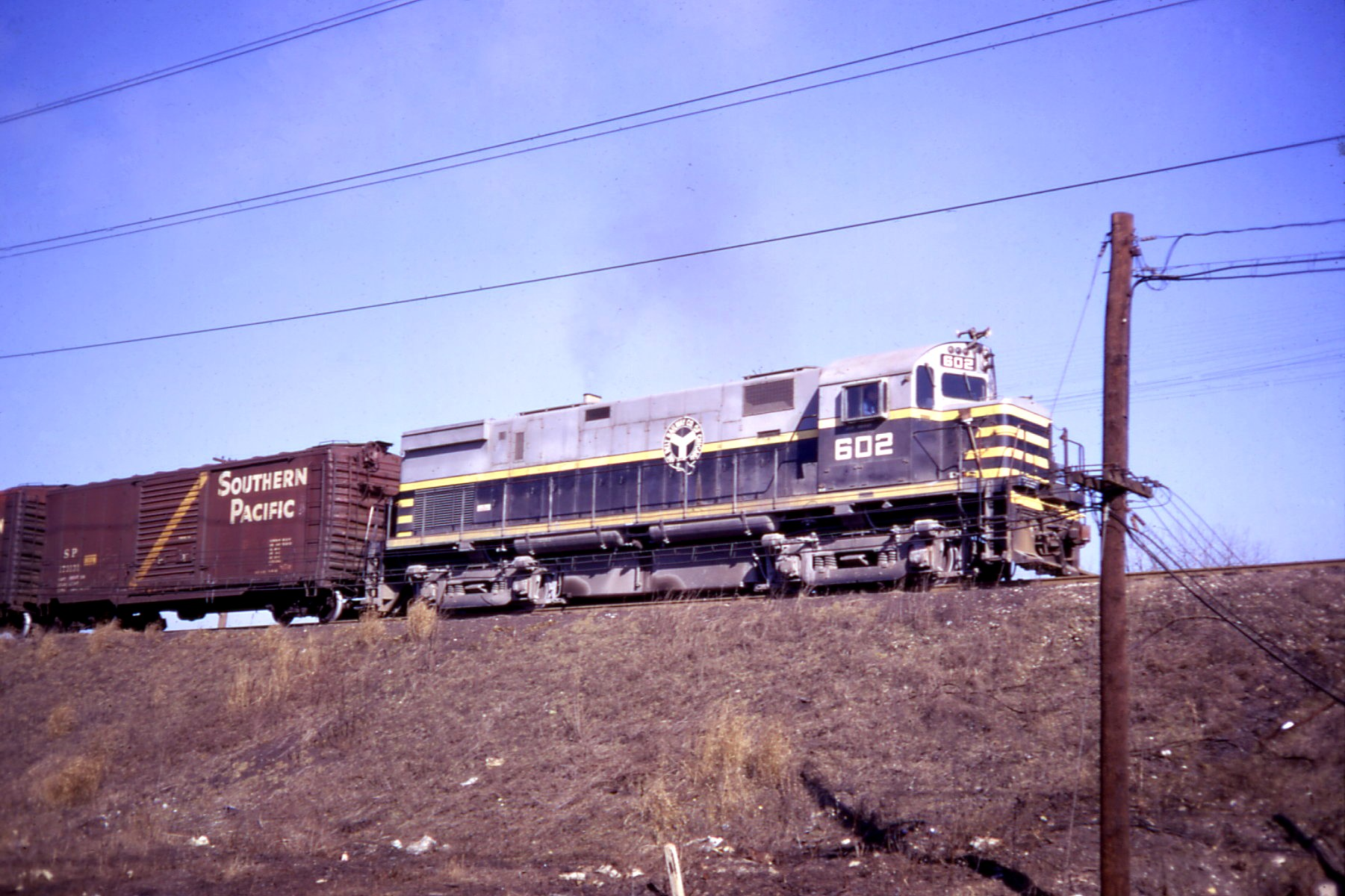 A Belt Railway of Chicago ALCO C424 pulls a freight in Cicero, Illinois.